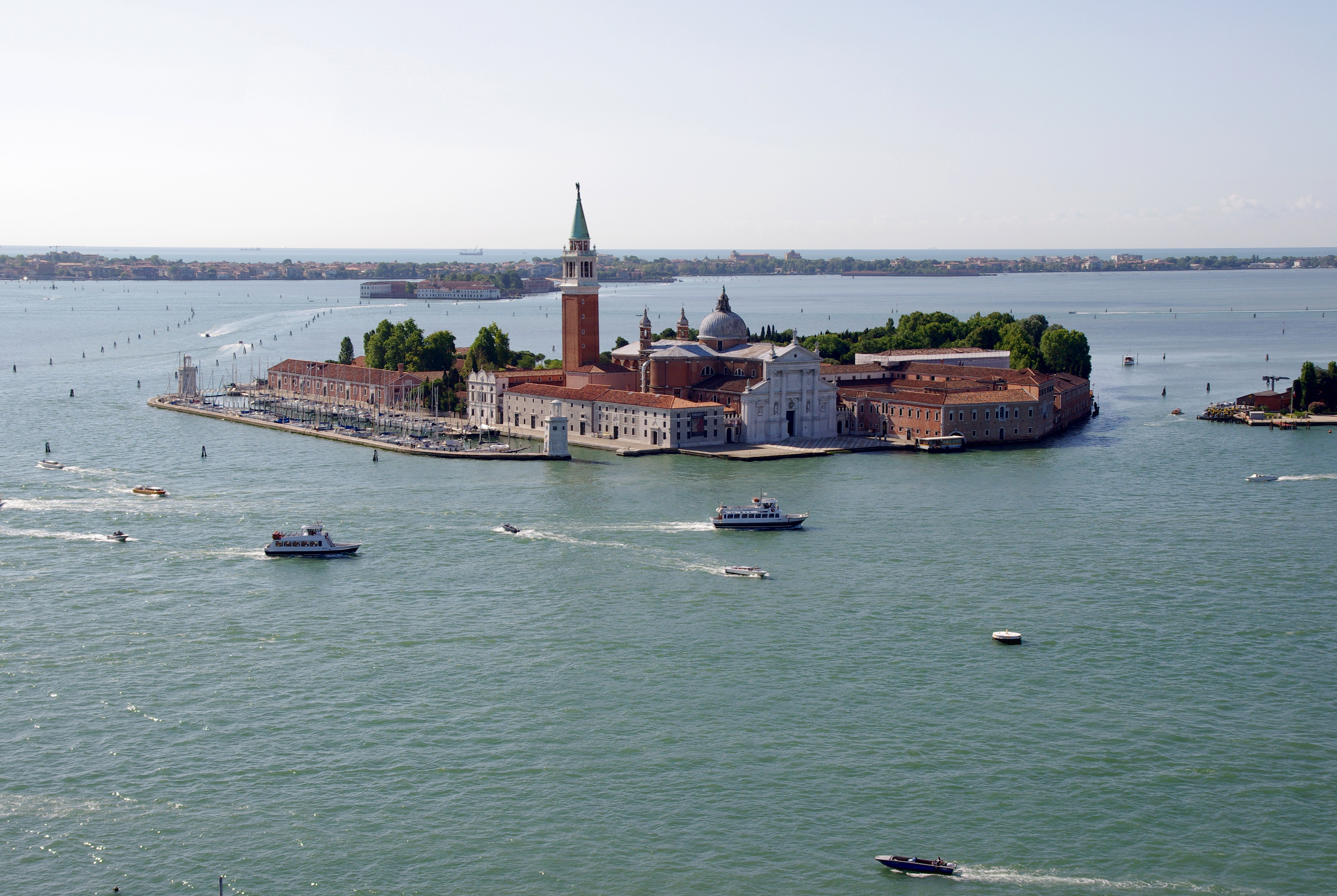 The Island of San Giorgio Maggiore in Venice